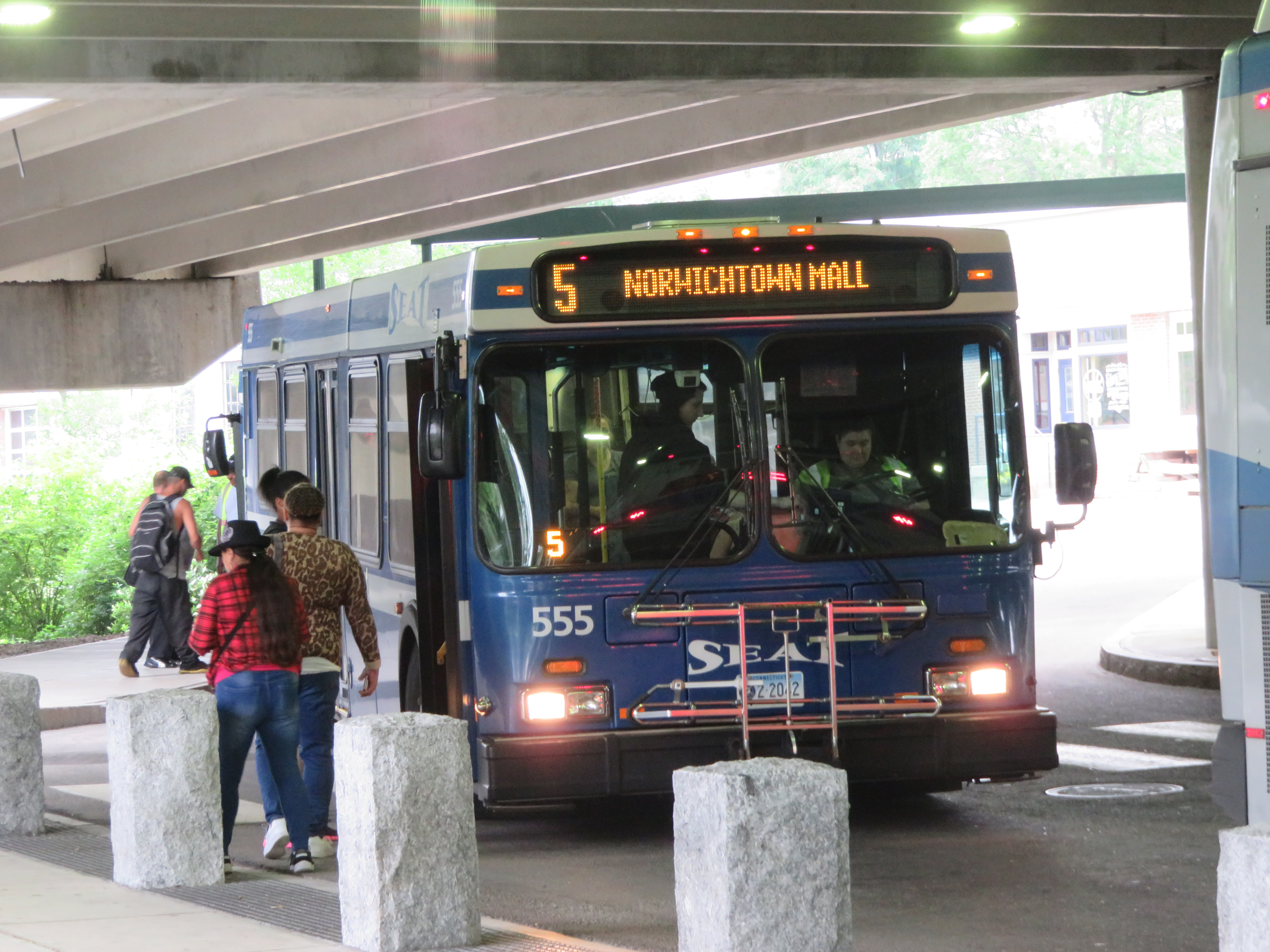 2006 New Flyer D40LF #555 at the Norwich Transportation Center.